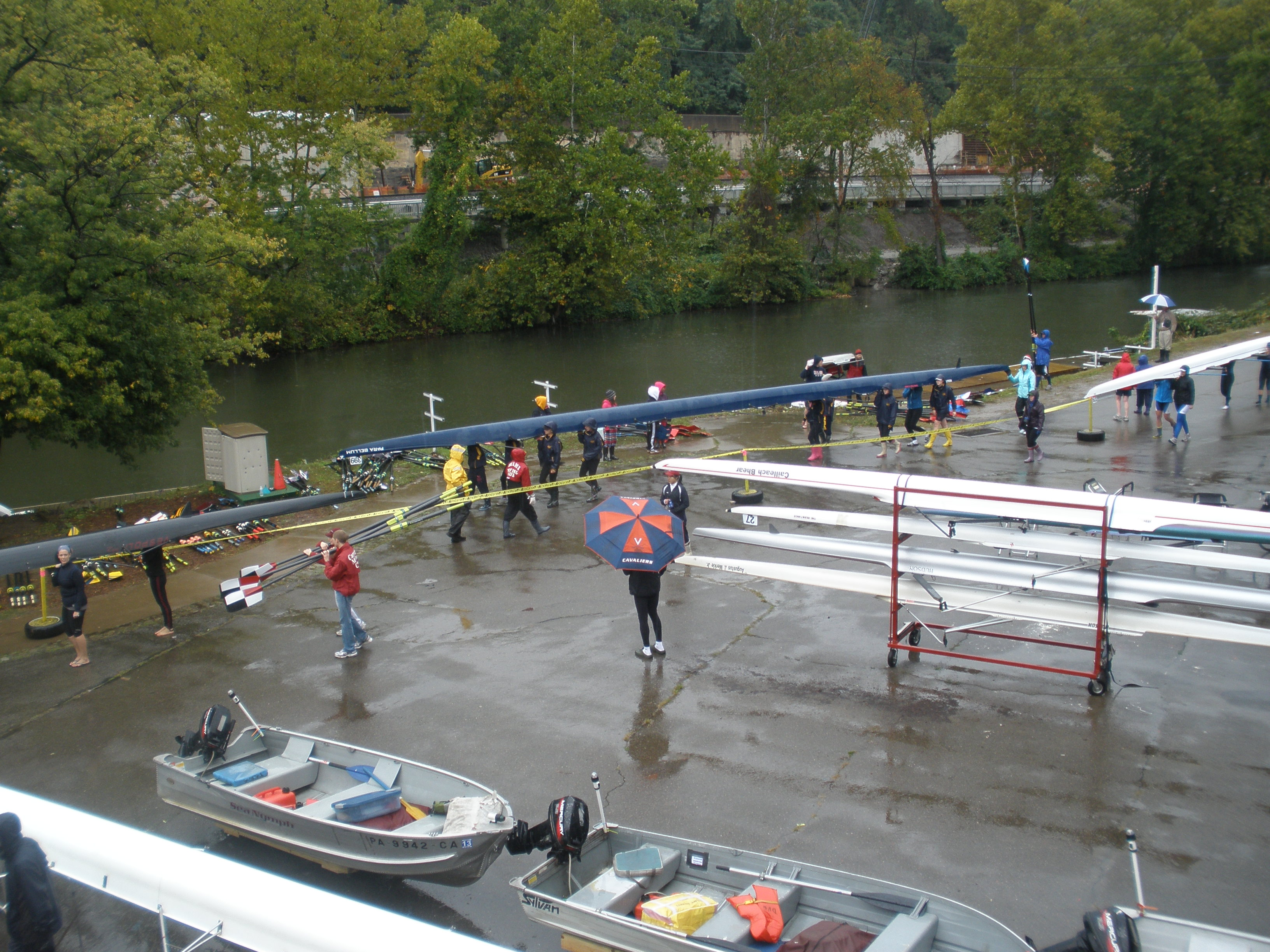 Rain or shine, the Head of the Ohio regatta must go on!